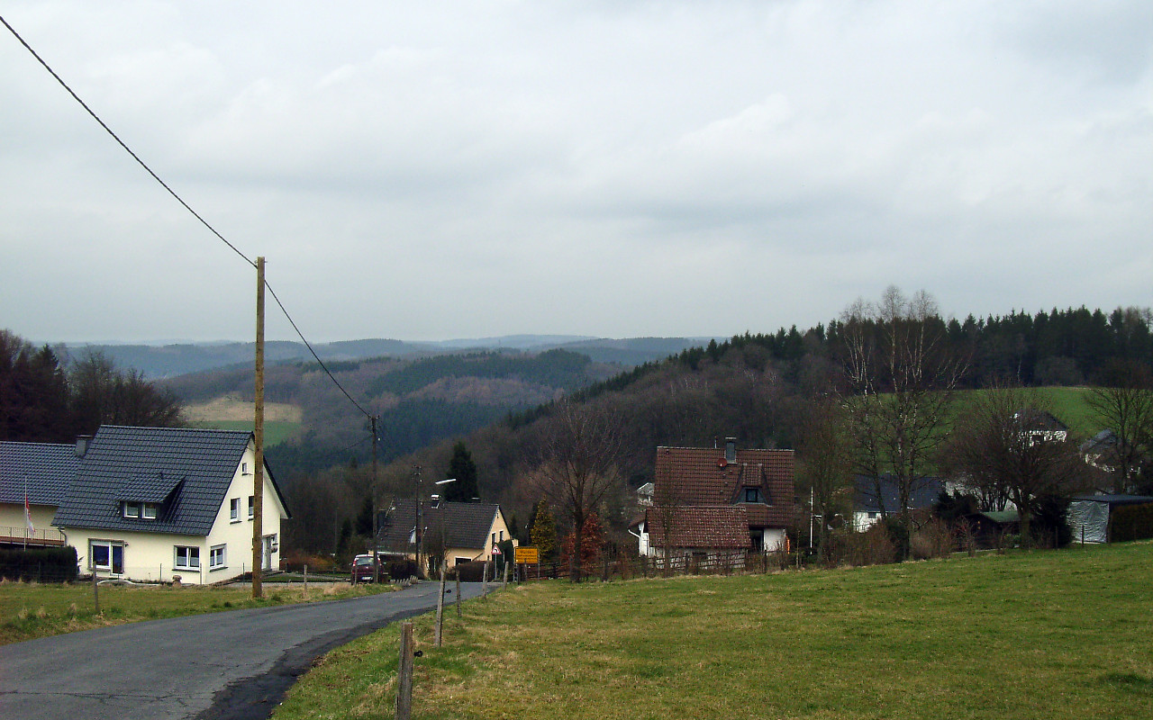 view of Würden, district of Gummersbach, North Rhine-Westphalia, Germany